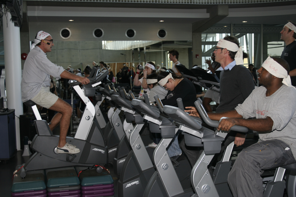 picture form artwork awareness muscle at blackwood gallery, toronto